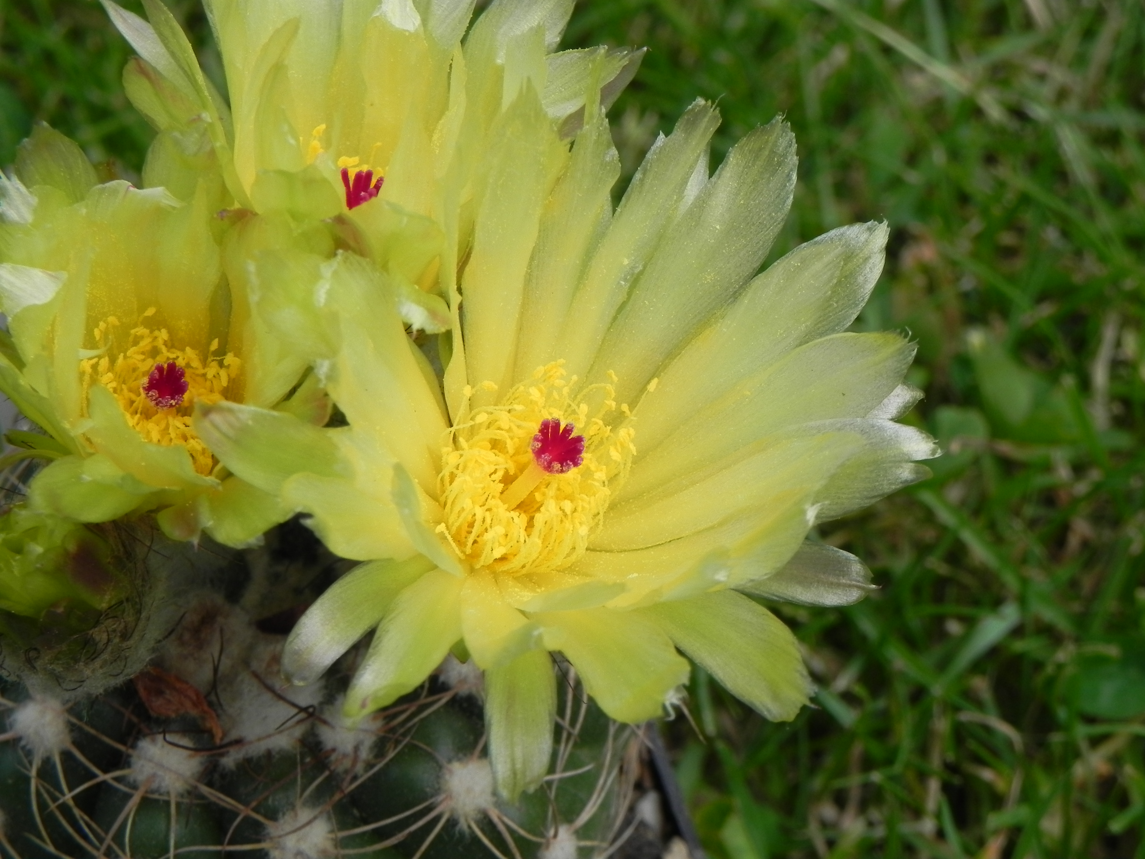 Photo of the cactus Parodia crassigibba (F.Ritter) N.P.Taylor, taken from a plant in cultur, with flowers. Synonym name is Notocactus crassigibbus.